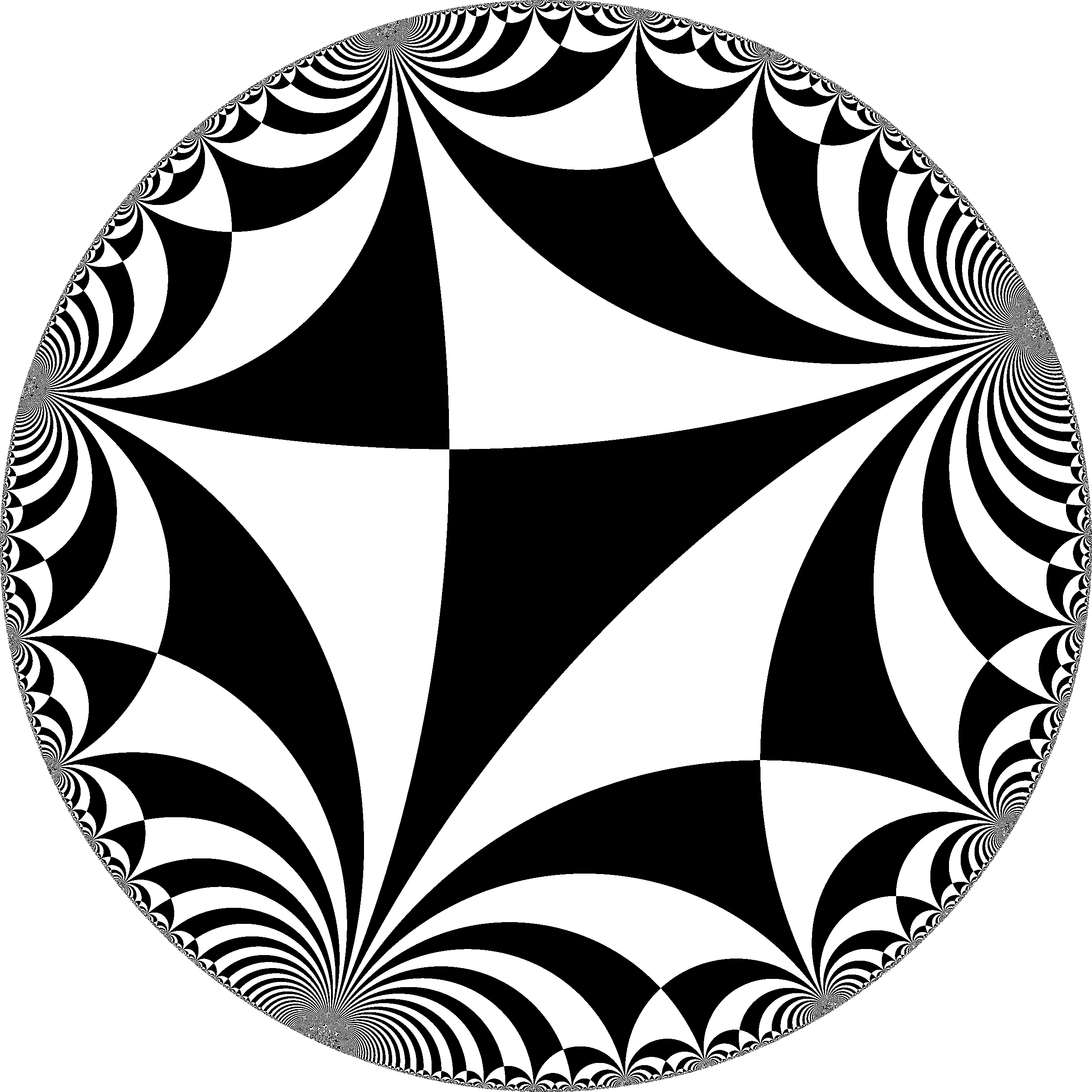 Tiling of the hyperbolic plane by triangles: π/2, 0, 0. Generated by Python code at User:Tamfang/programs. Equivalent: Dual